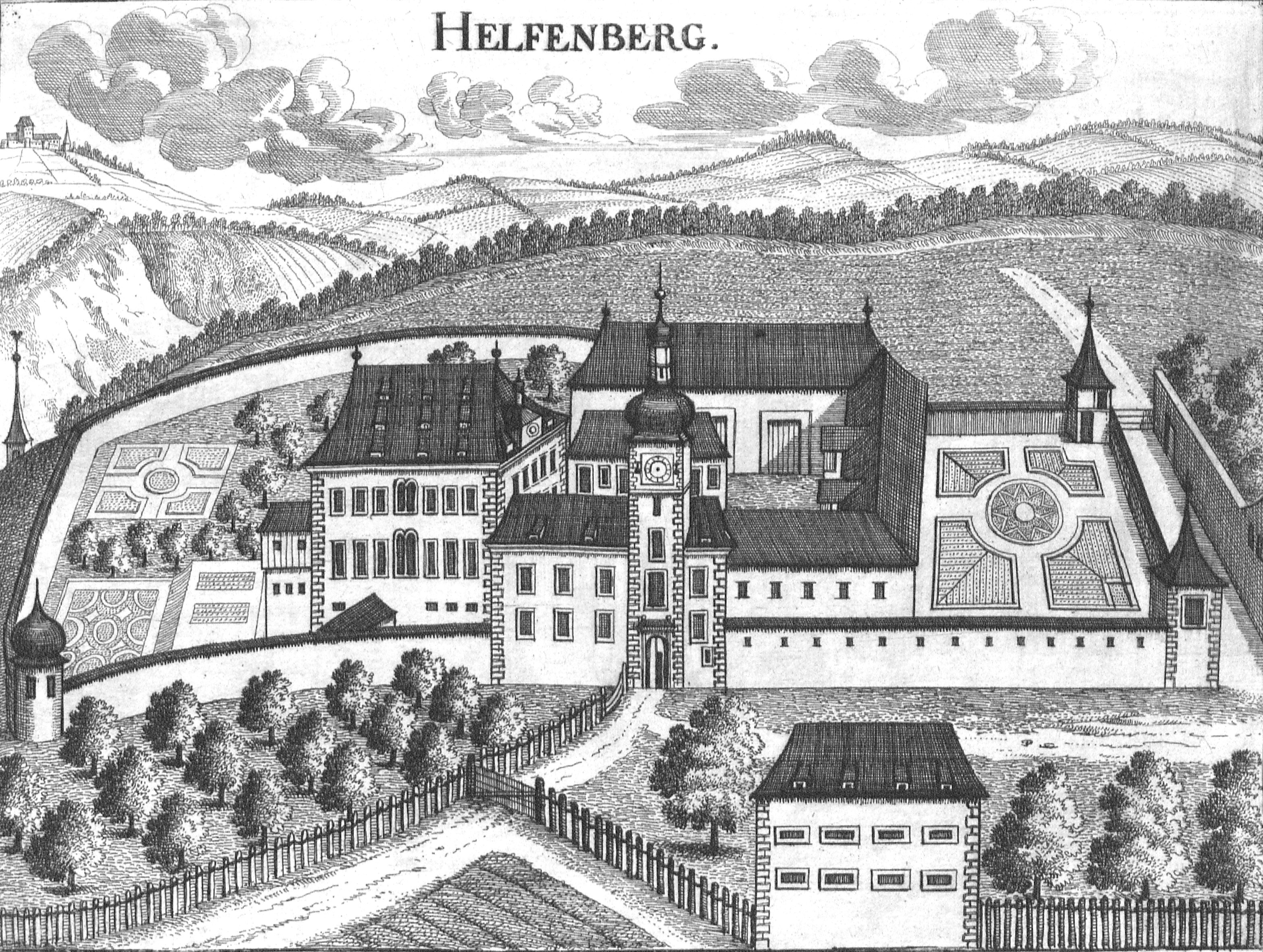 Castle Helfenberg in Upper Austria, drawing from M. Vischer 1674